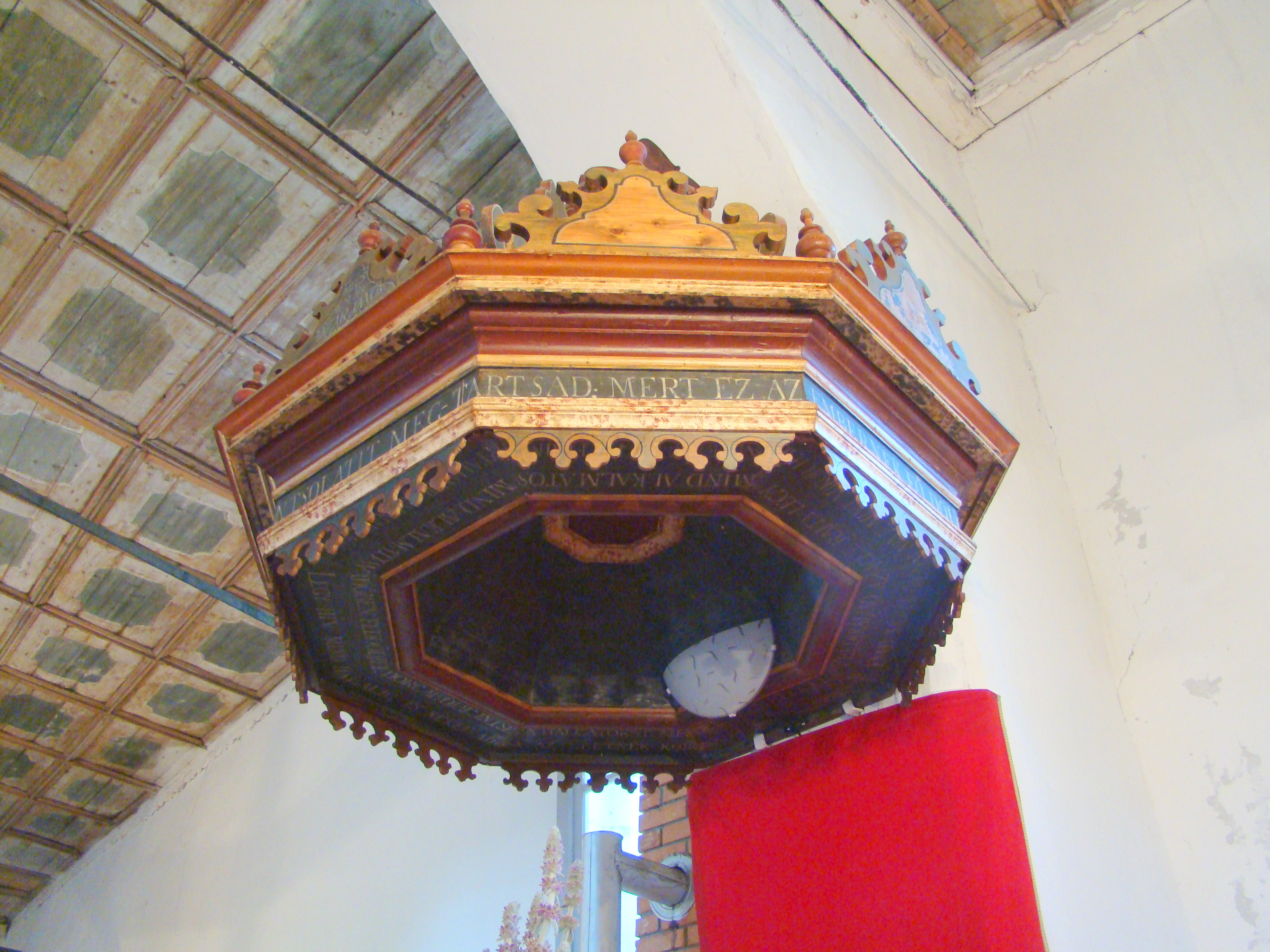 Reformed church in Sântana Nirajului, Mureş county, Romania 01